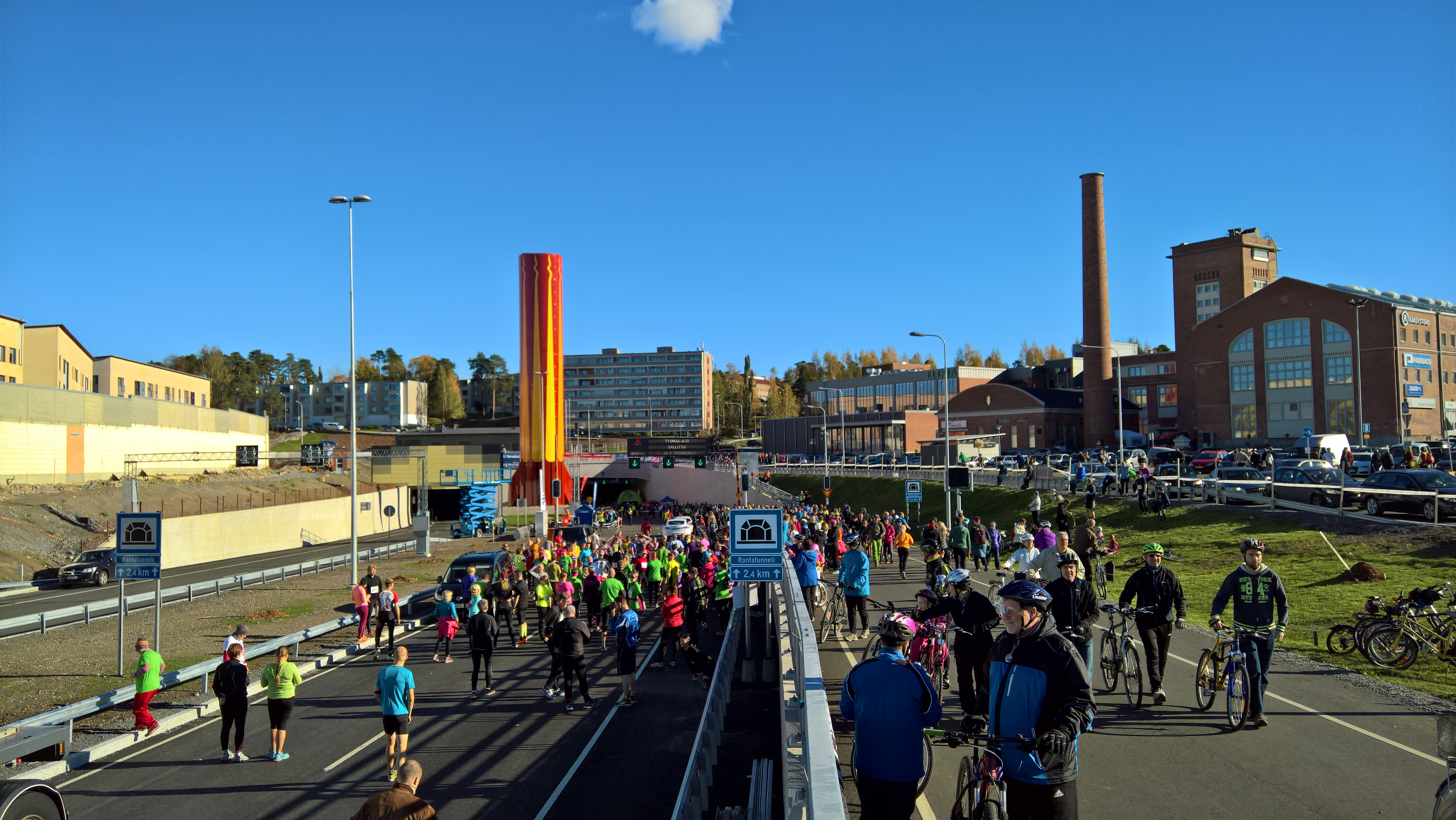 Santalahti interchange in the western mouth of the Rantaväylä tunnel, this photo has been taken on the intersection bridge of Paasikiventie road on Rantatunneli day when it was allowed to walk or cycle in the tunnel.